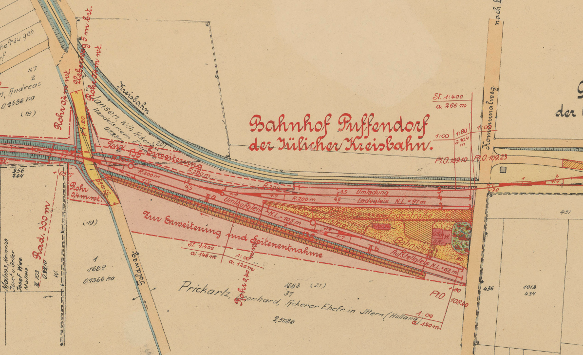 Plan of Puffendorf railway station of the Jülicher Kreisbahn 1910